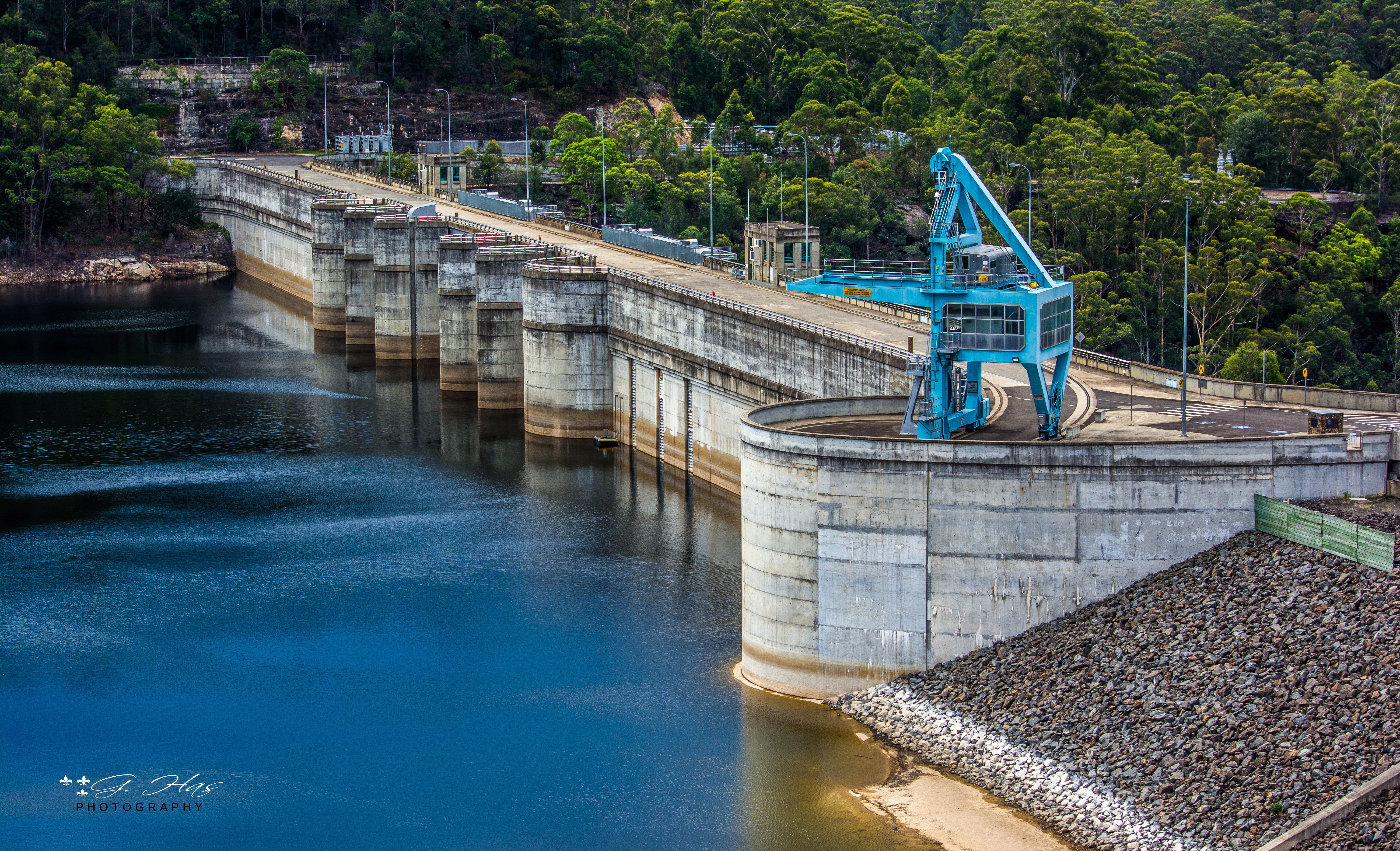 Warragamba Dam, January 2014.